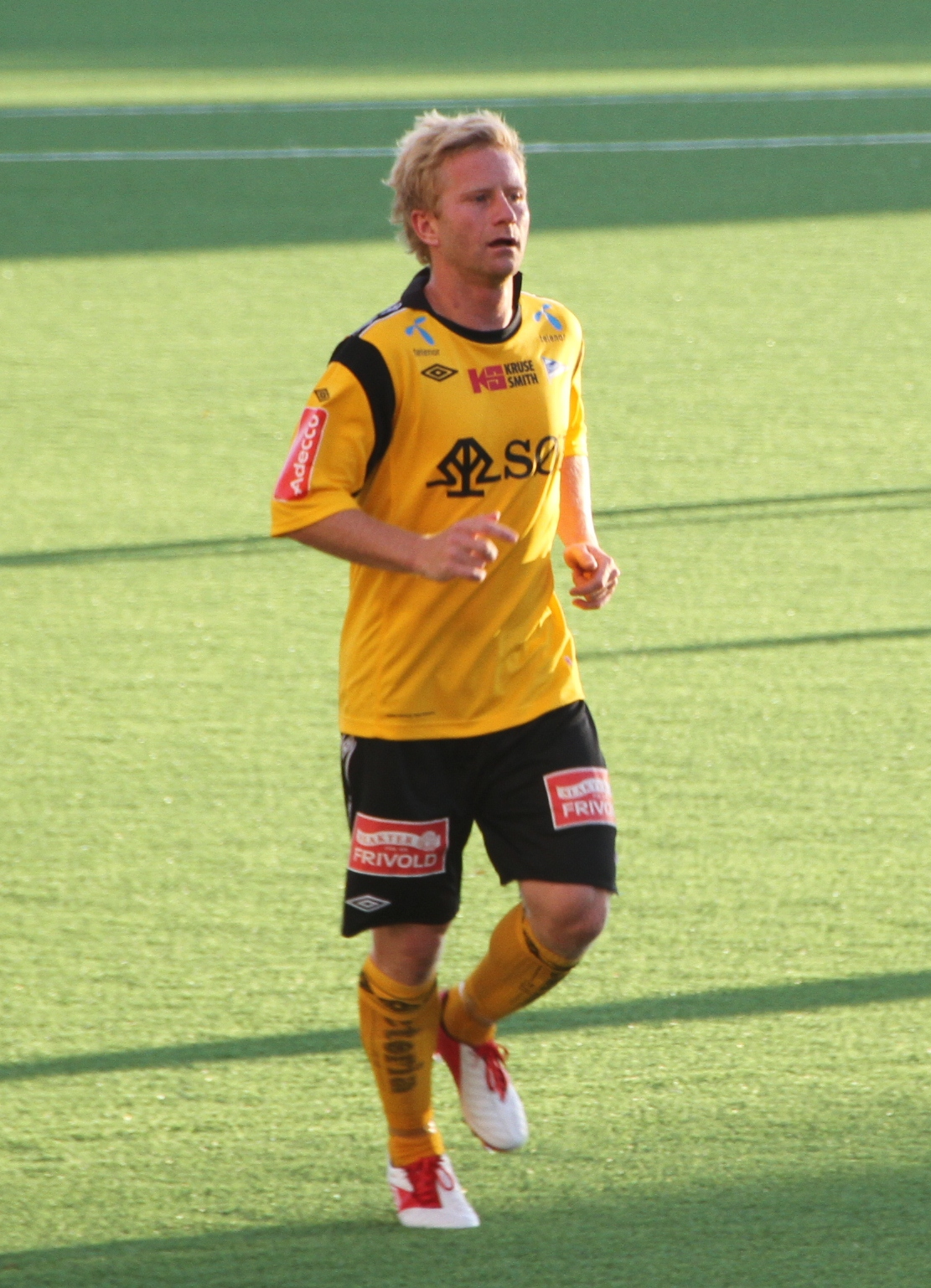 IK Start football player in an August, 2012 match against Strømmen IF. Akershus, Norway.